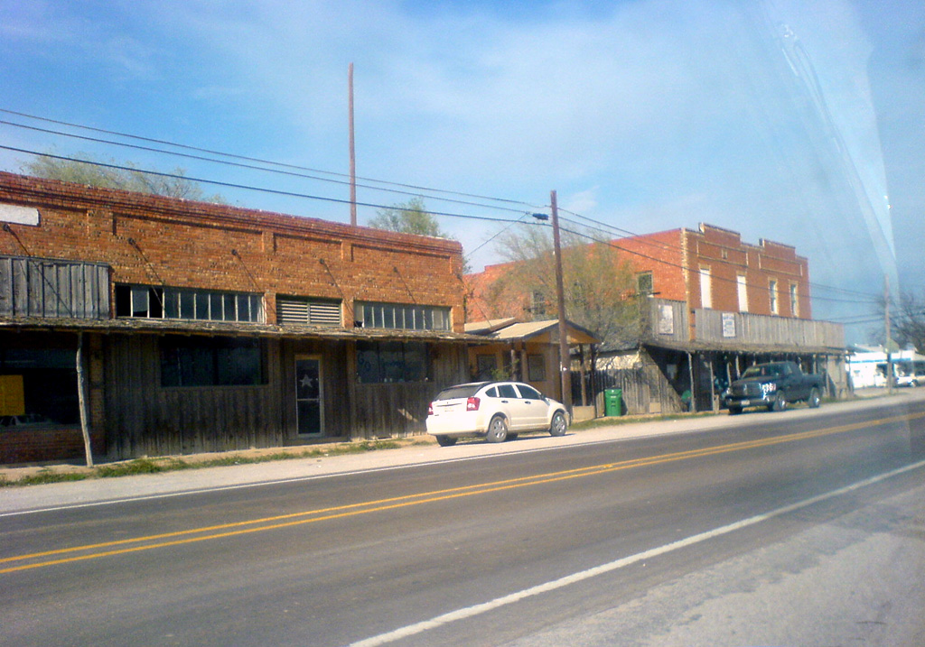 Downtown Bryson, Texas from US 380.